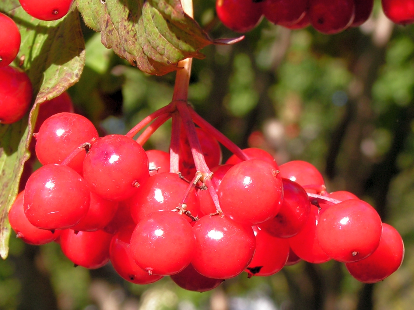 Berries of cultivated Guelder rose (Viburnum opulus). Moscow region, Russia.